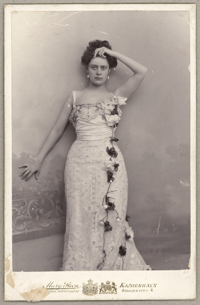 Betty Nansen in the title role in Alexandre Dumas' Lady of the Camellias KB id: ke019577 Photo: Mary Steen (1856-1939) Department of Maps, Prints and Photographs, The Royal Library, Denmark.